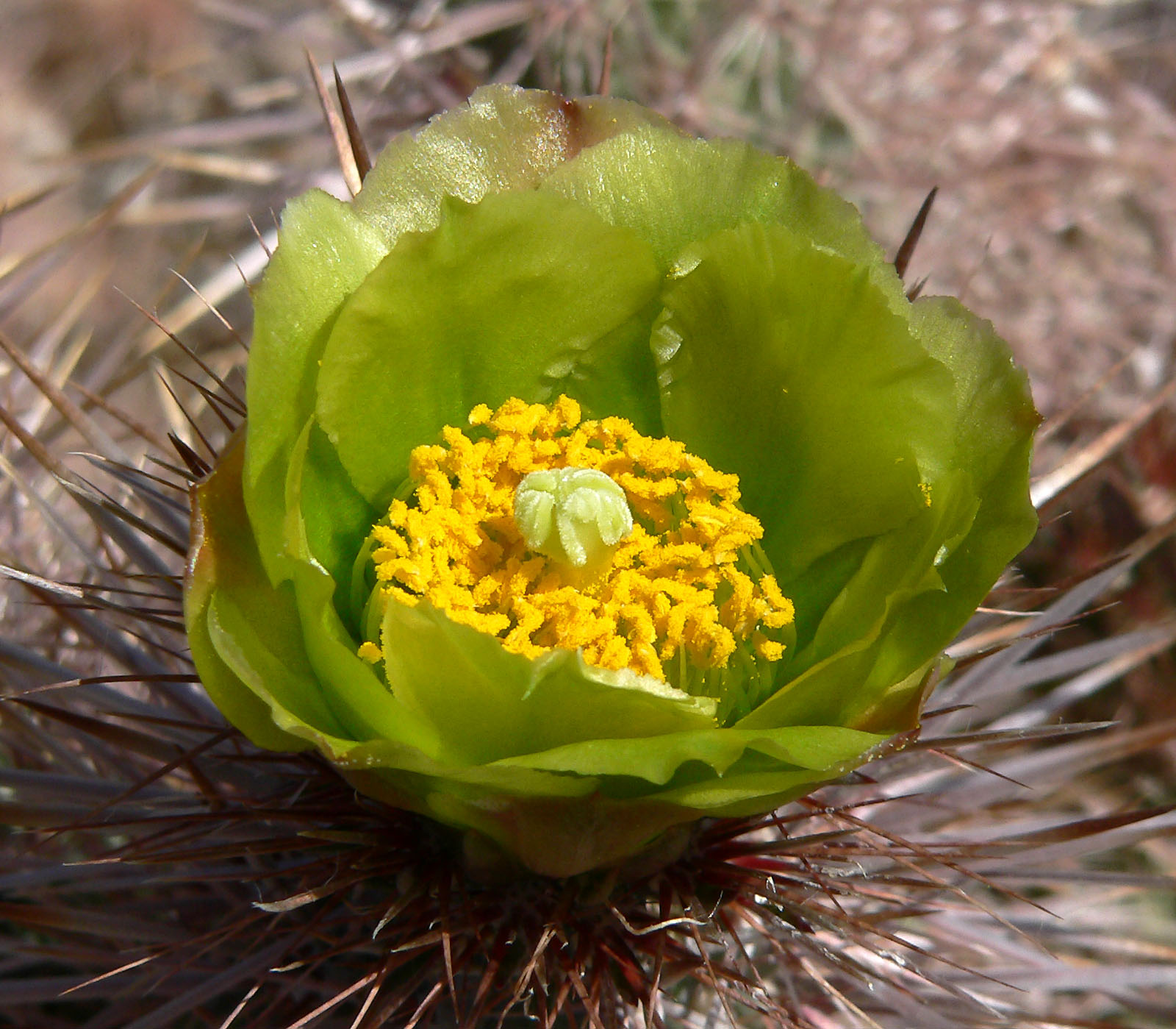 Cylindropuntia echinocarpa in lower Lee Canyon, Spring Mountains, southern Nevada